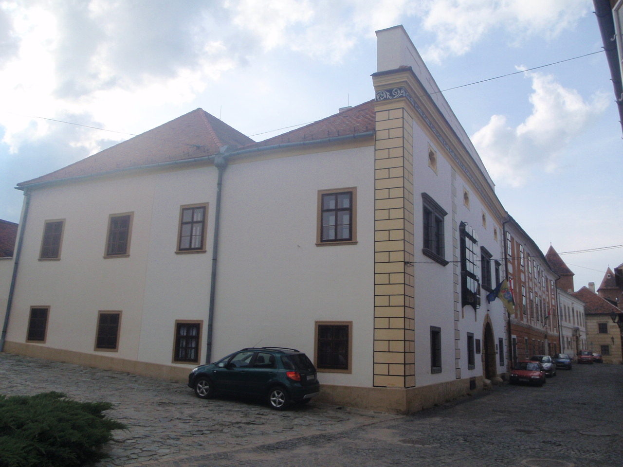 Institute for Social and European Studies, Kőszeg